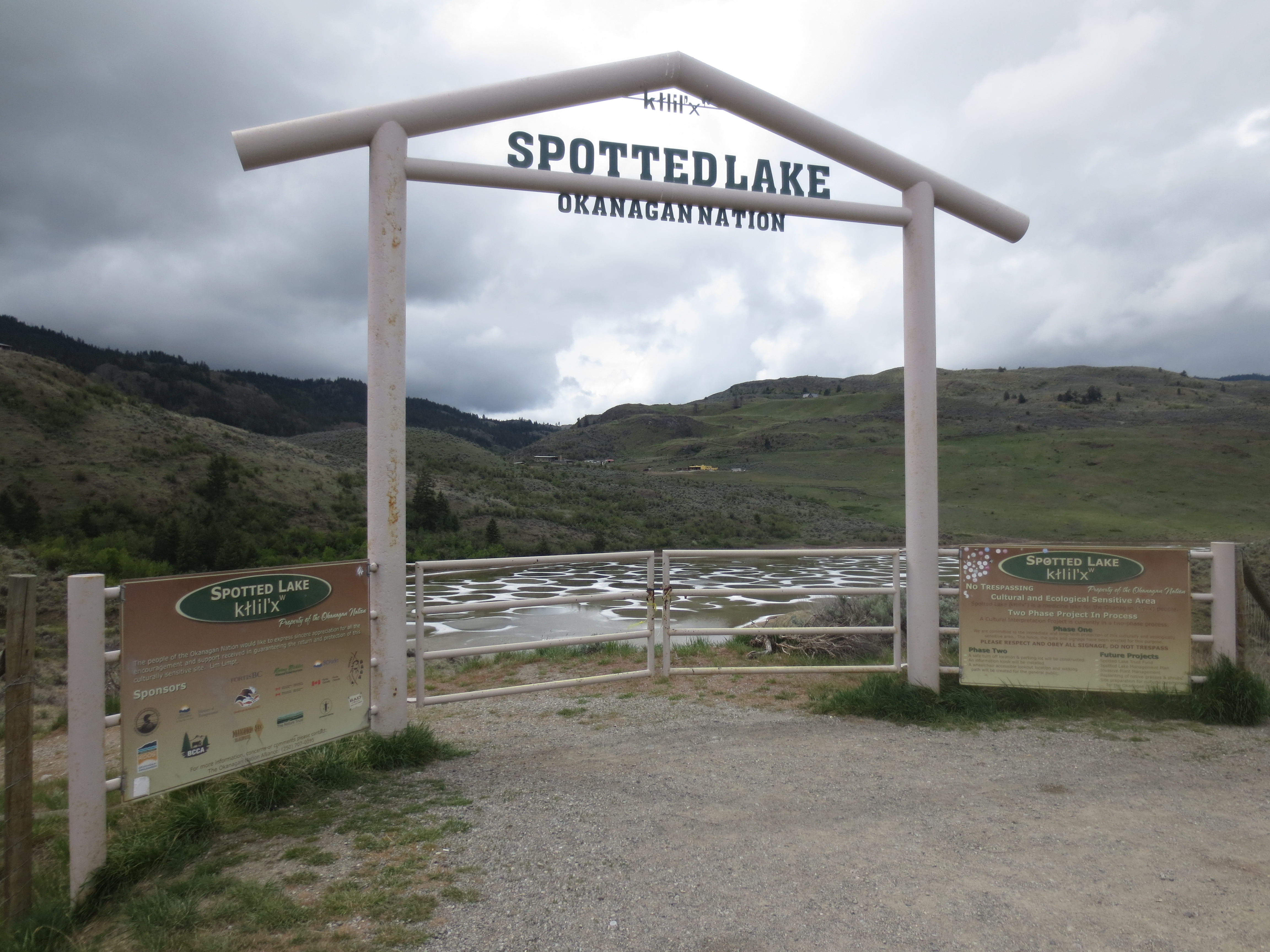 Gateway to Ktlil'x (Spotted Lake) a medicine lake for the Okanagan people